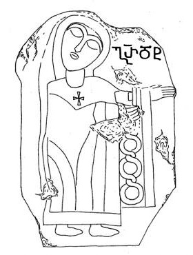 Queen Gurandukht. A sketch of carved relief from Kumurdo Cathedral, Georgia (after N. Aladashvili).